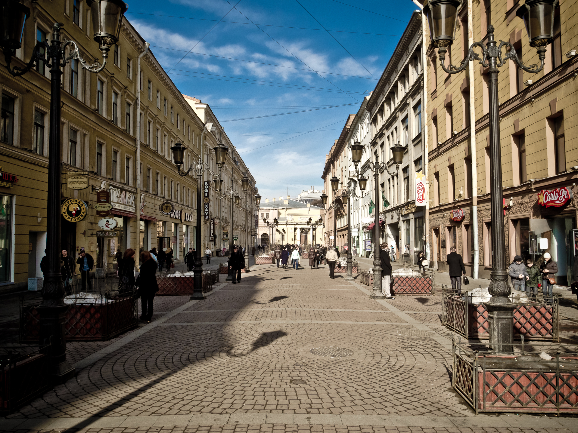 Malaya Sadovaya Street in Saint-Petersburg, Russia, 2011